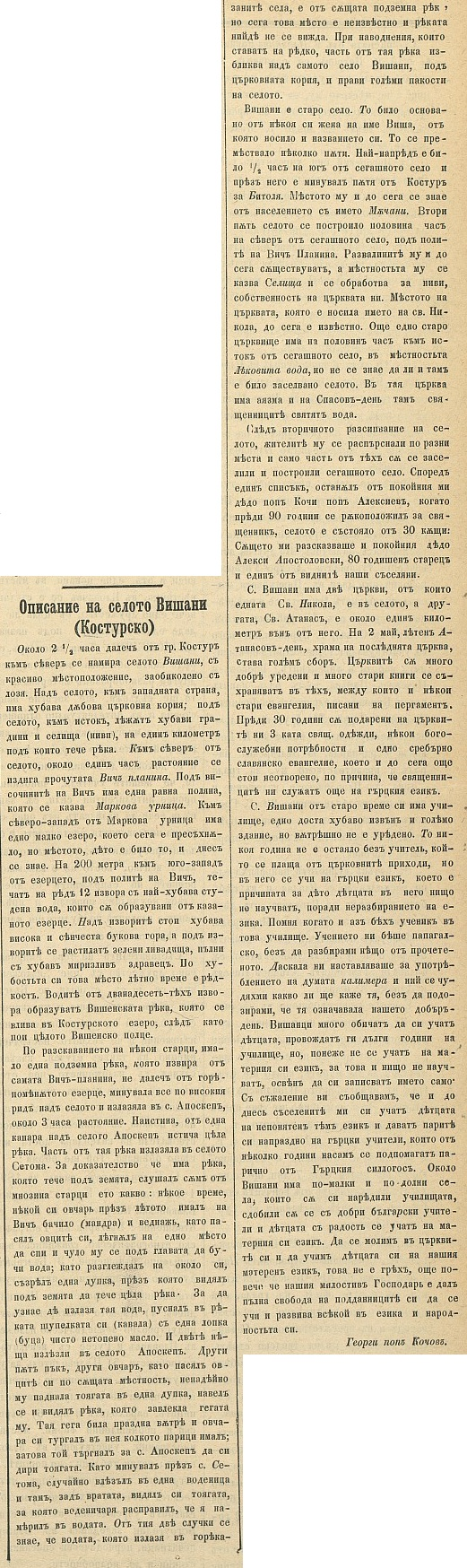 Novini with an article about Visheni Village.